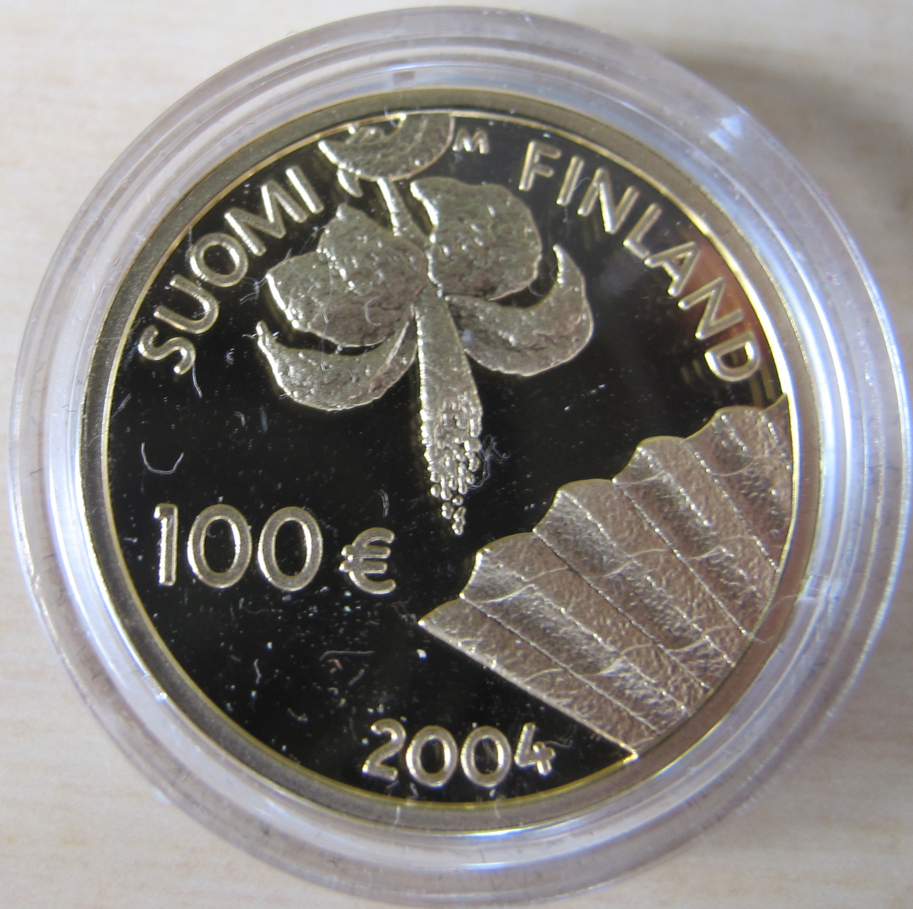 Albert Edelfelt and painting commemorative coin designed by Pertti Mäkinen, published in 2004 by Mint of Finland, nominal value 100 €.